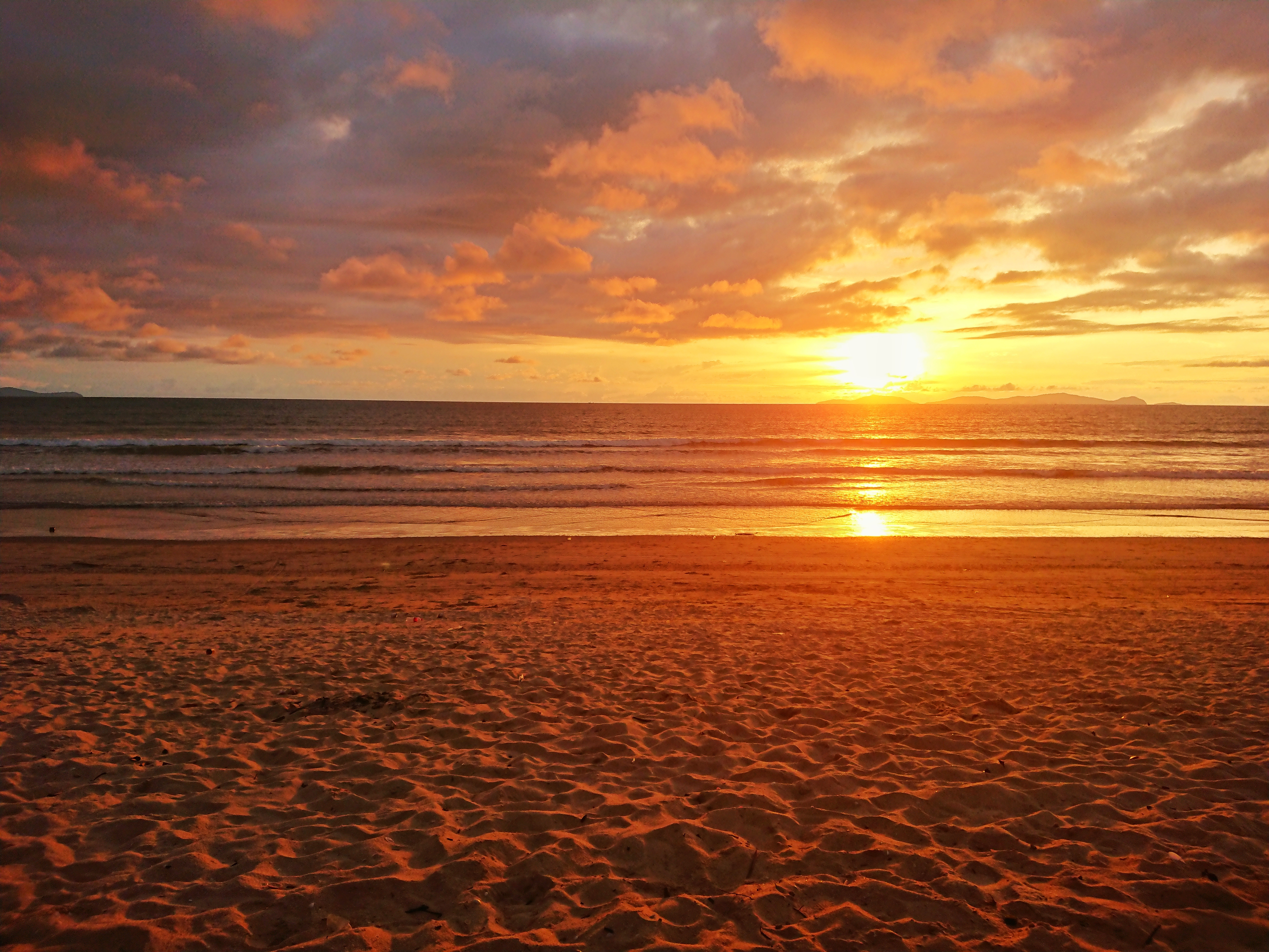 Maung Ma Gan Beach Dawei မြန်မာဘာသာ: မောင်းမကန်ကမ်းခြေ ထားဝယ်